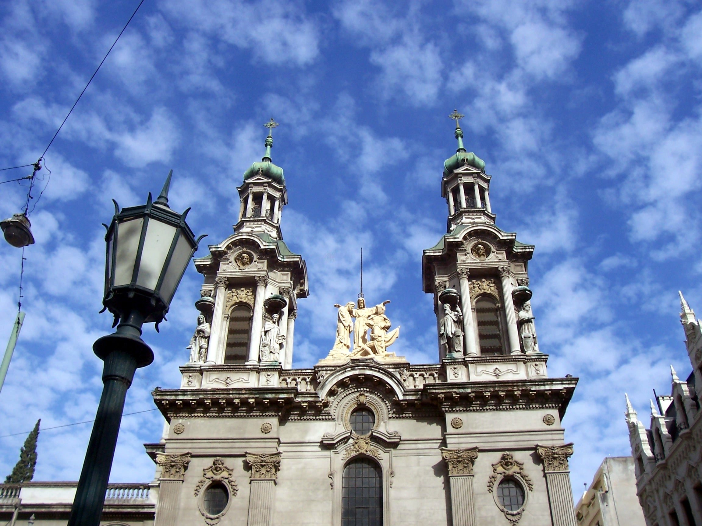 The Basílica Menor de San Francisco, belonging to the order of Friars Minor (commonly called simply the "Franciscans"), the first one in be establishing in Buenos Aires about the year 1583. The current church was begun to construct in 1731, a project of the Jesuit architect Andrés Blanqui. It is located on the corner of Defensa and Alsina, Monserrat.